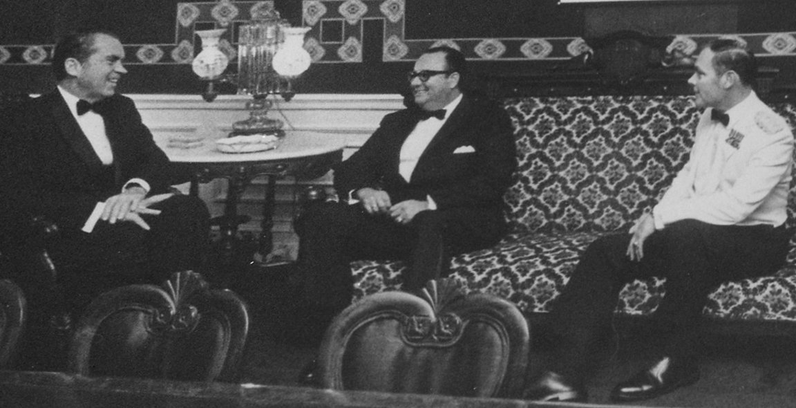 left to right: Richard Nixon, Anastasio Somoza Debayle, Alexander M. Haig, Jr.